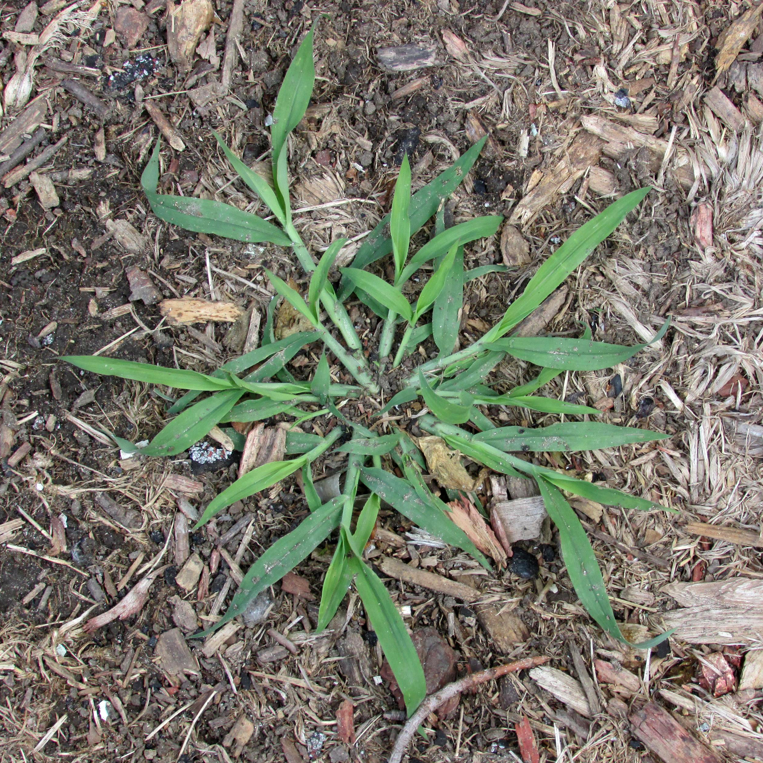 Described as smooth crabgrass (Digitaria ischaemum) (Schreb.) Schreb. ex Muhl., but too hairy - it looks like Digitaria sanguinalis